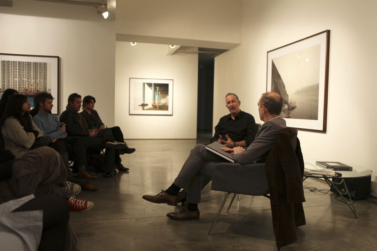 Nadav Kander being interviewed by Philip Dodd for his series Yangtze - The Long River